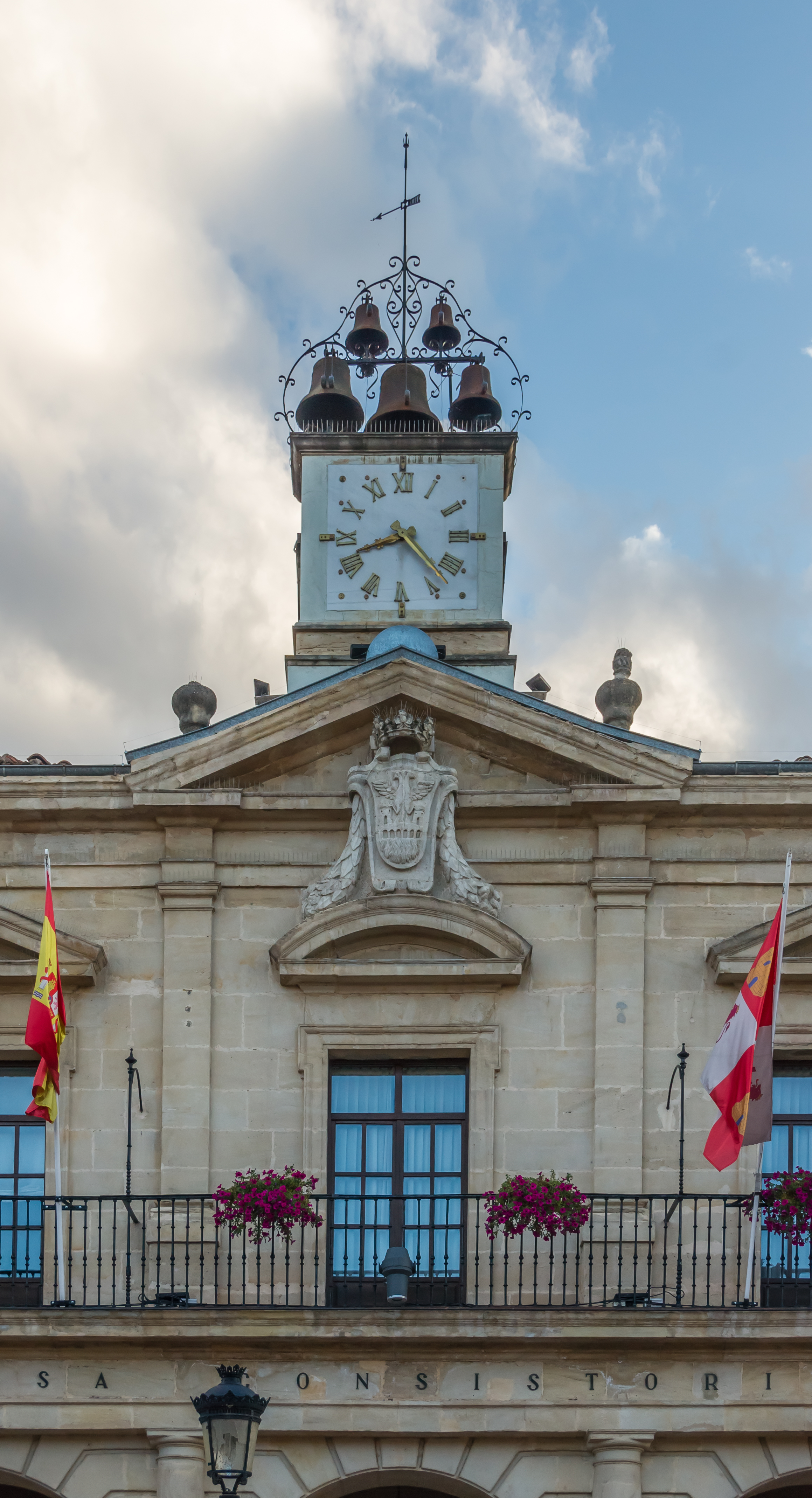 Central part and top of the town hall of Miranda de Ebro, Spain.